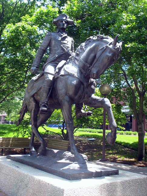 A statue of General "Mad" Anthony Wayne stands as a tribute to him in Freimann Square, downtown Fort Wayne. (24 May, 2008)